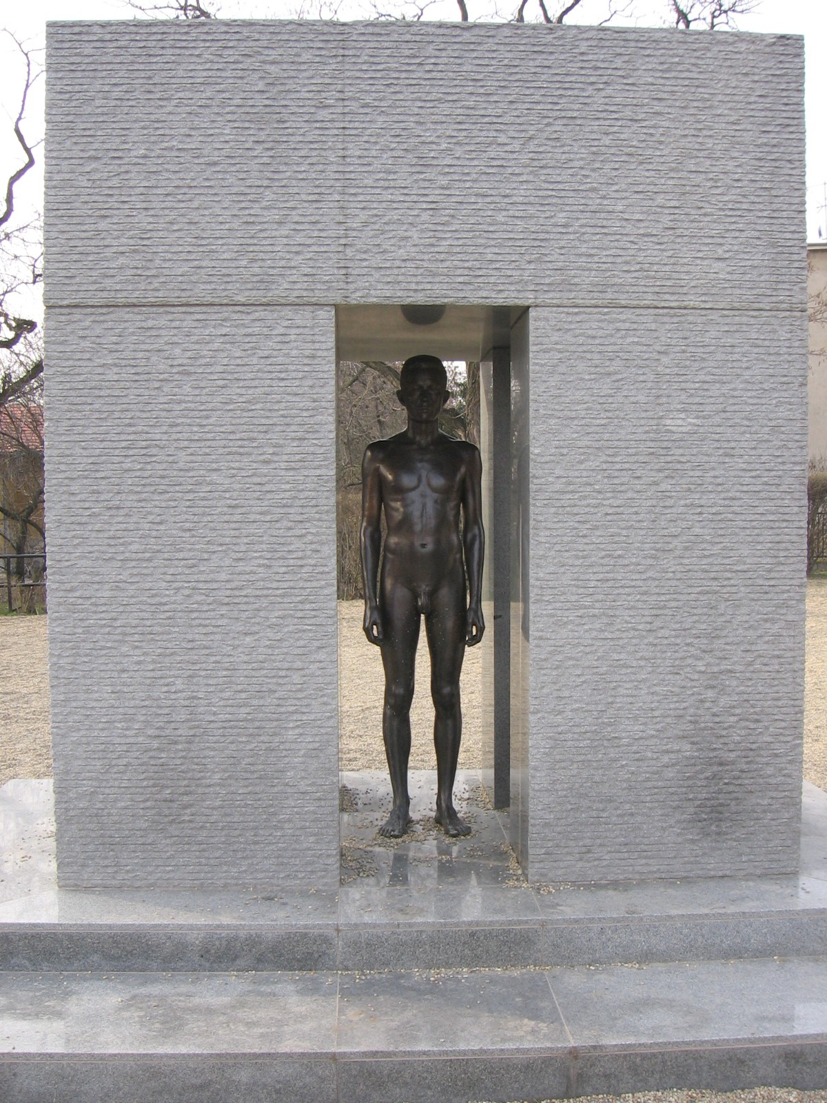 Monument of Peter Mansfeld in Budapest, II. district, Világifjúsági park. Sculptor: Menasági Péter